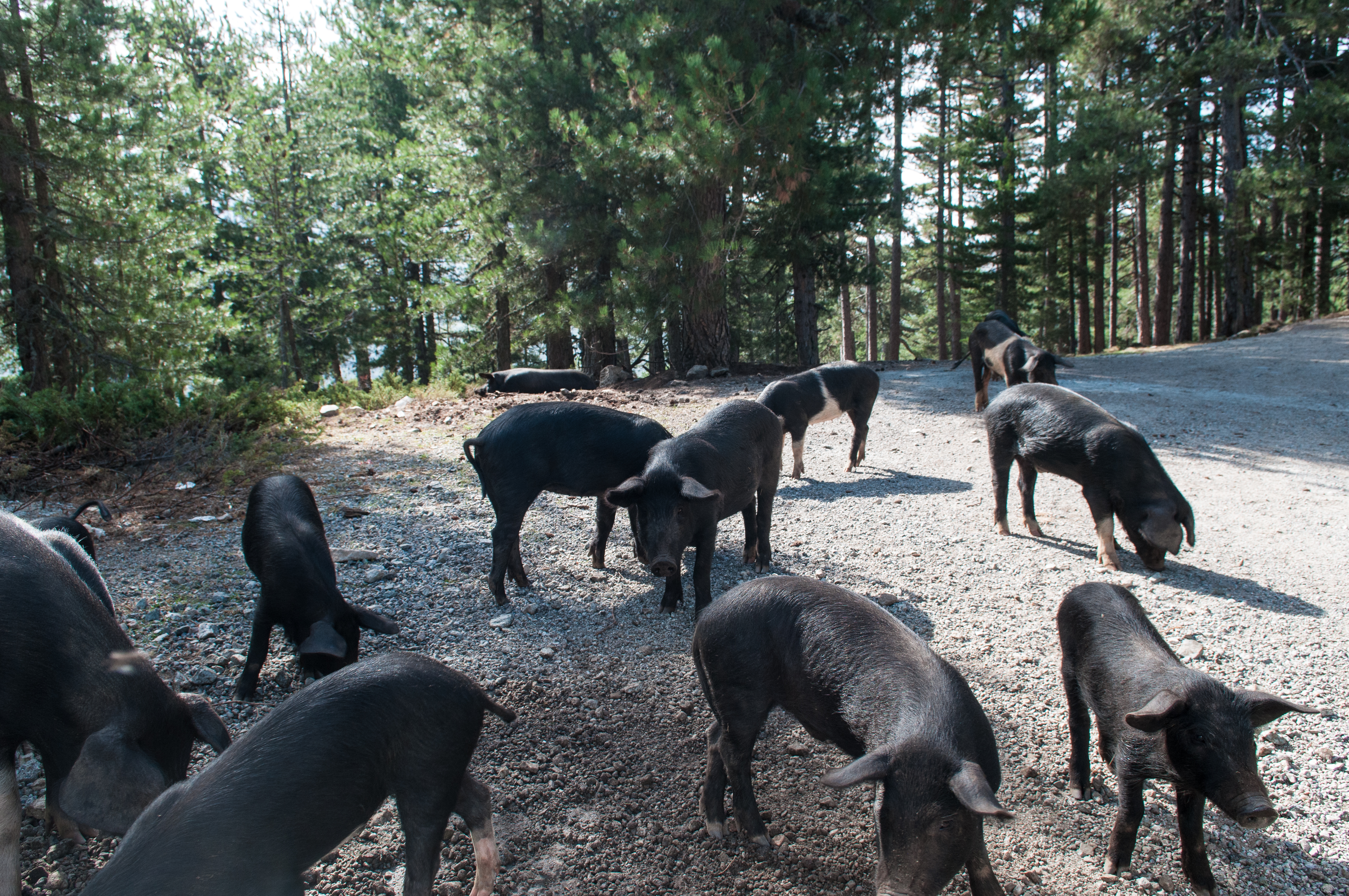 Corsica Wild Pigs